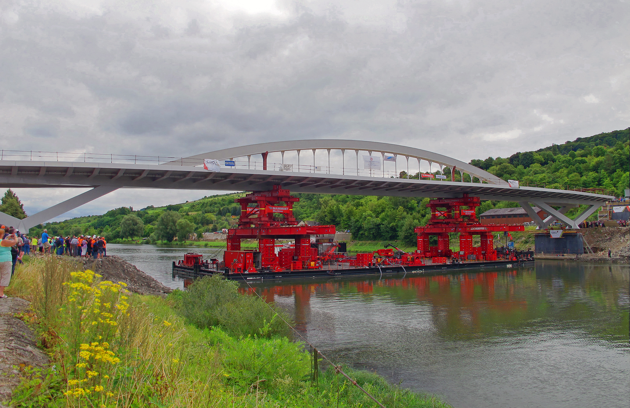 The middle part of the new bridge of Grevenmacher-Wellen is being placed on its foundations